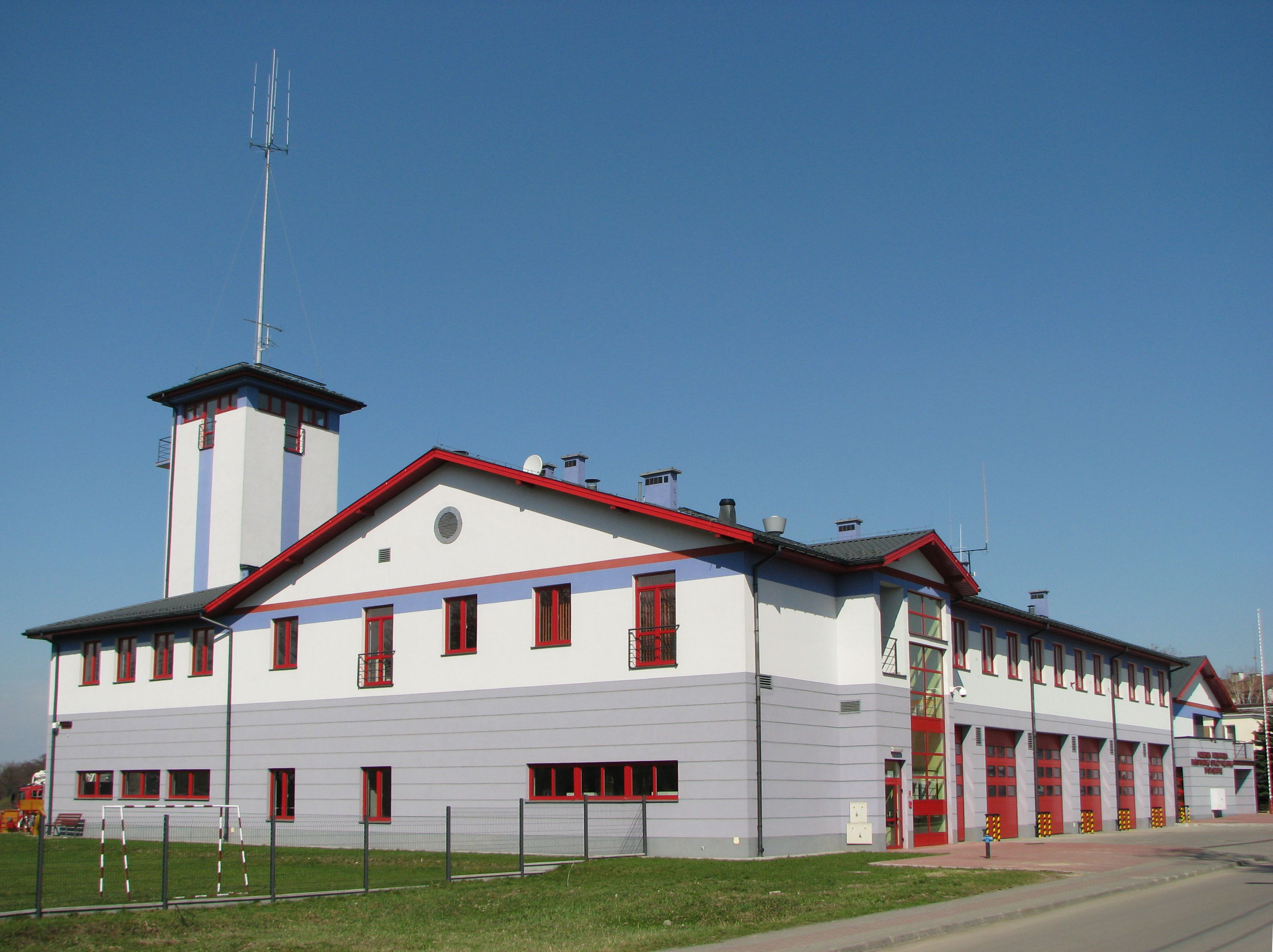 Fire station in Staszów, Poland.